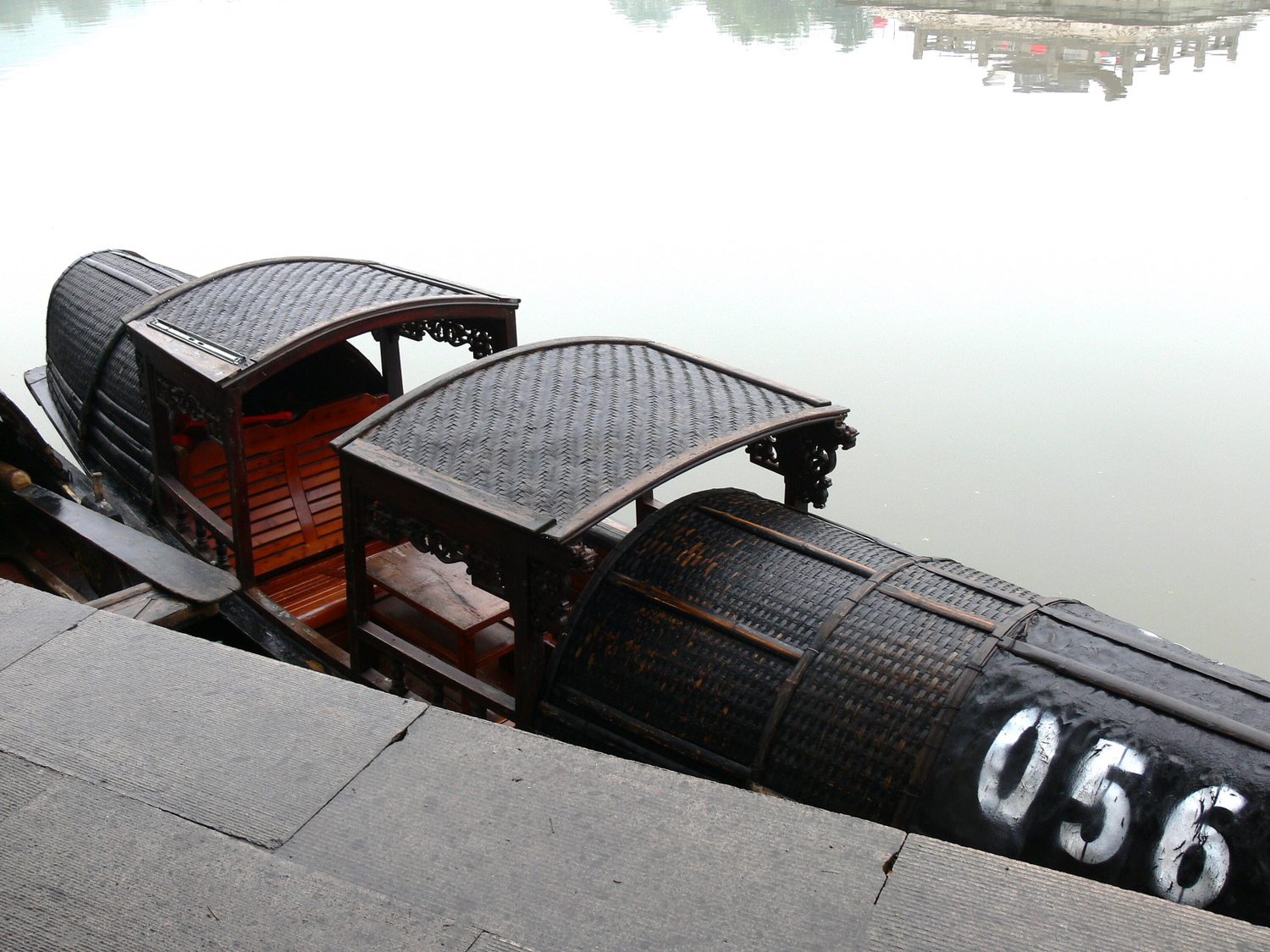 Black top boat in Shaoxing